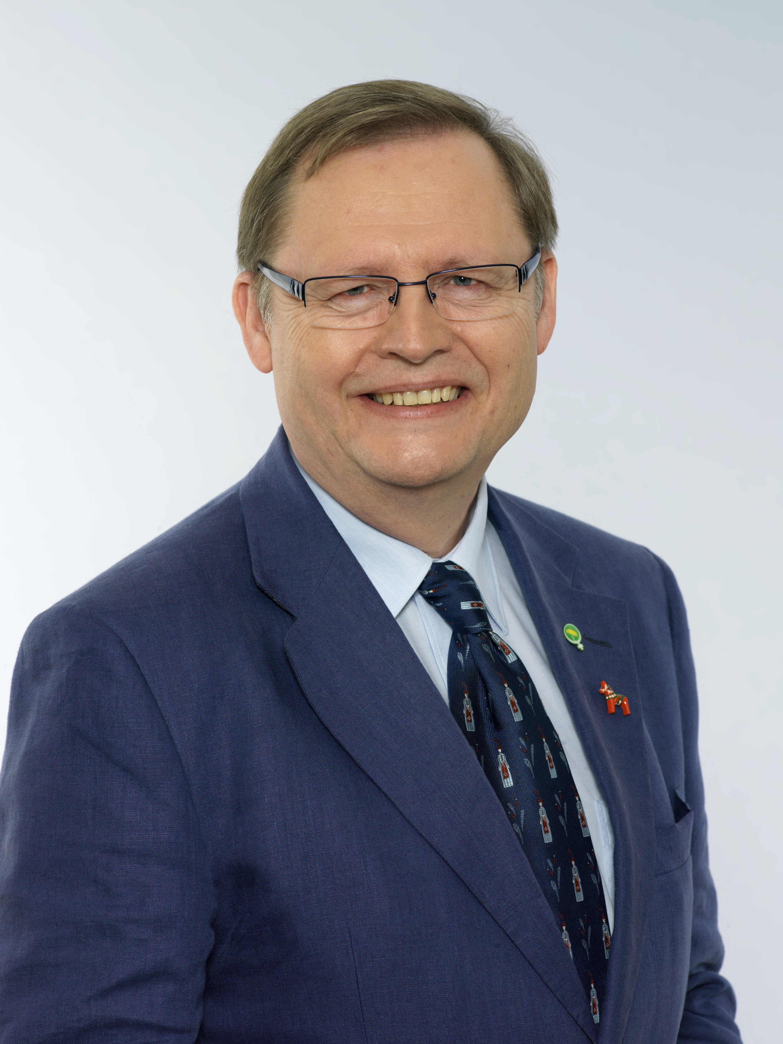 Member of Swedish Parliament, Jan Lindholm (Green Party)